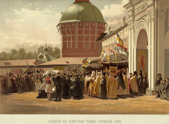 Alexander III of Russia and Maria Fedorovna at the Trinity-St. Sergius Monastery. 1883.